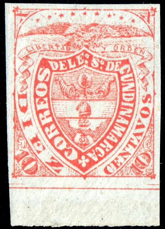 Colombian state of Cundinamarca 1882, 10 centavos red, mint, normal paper, with bottom sheet margin. Catalogue: Sc. 3